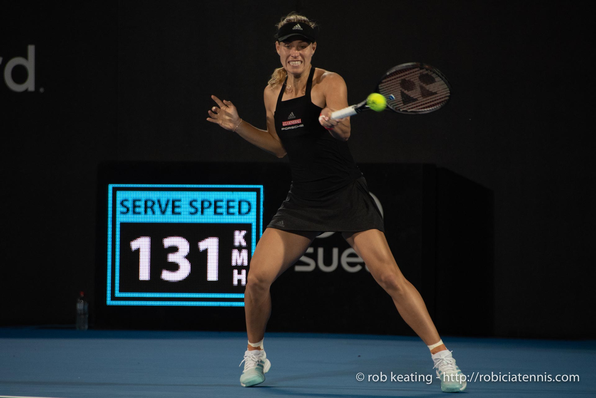 Sydney, Australia - 8 January 2018: Angelique Kerber hits a forehand late in her match against Camila Giorgi during their round two encounter at the Sydney International tennis. (Photo by Rob Keating/robiciatennis.com)